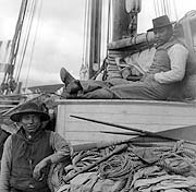 Aleut men and pelagic sealing apparatus. Special Collections, UW Libraries, UW 22259z